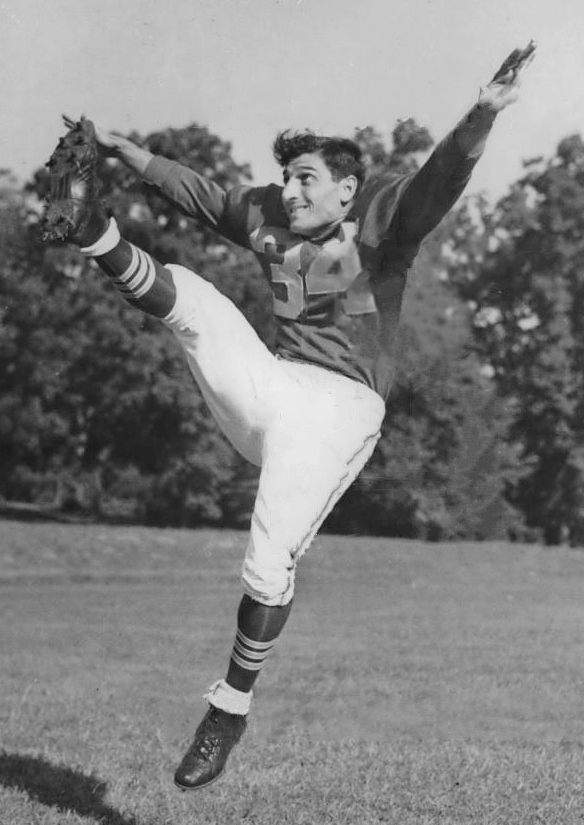 1944 Press Photo Tom Colella